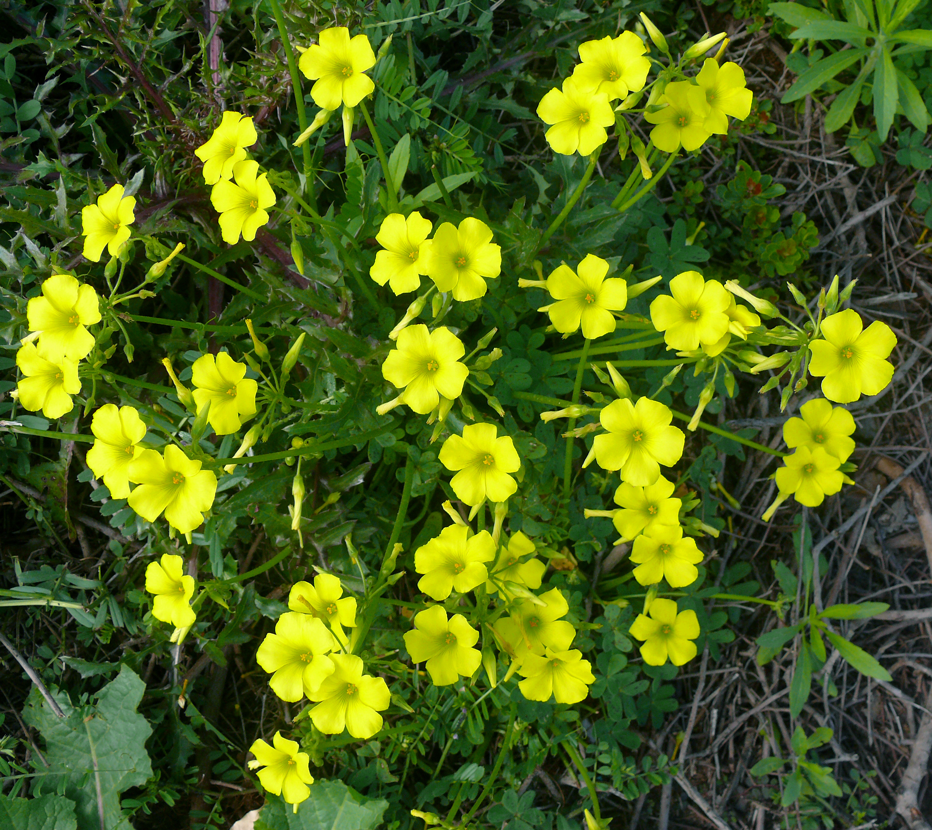 Oxalis pes-caprae, Tel Aviv University, Israel